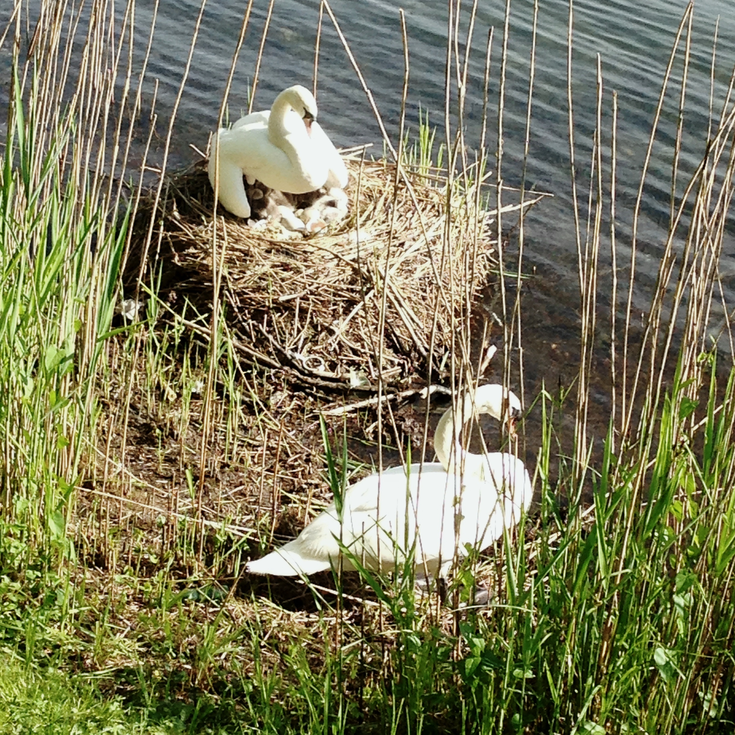 A swans nest on the ground near water shore of the Ticino River, at Sesto Calende in Lombardia, Italy. The female is in the nest while the eggs are progressively opening. The male is protecting the nest at short distance.